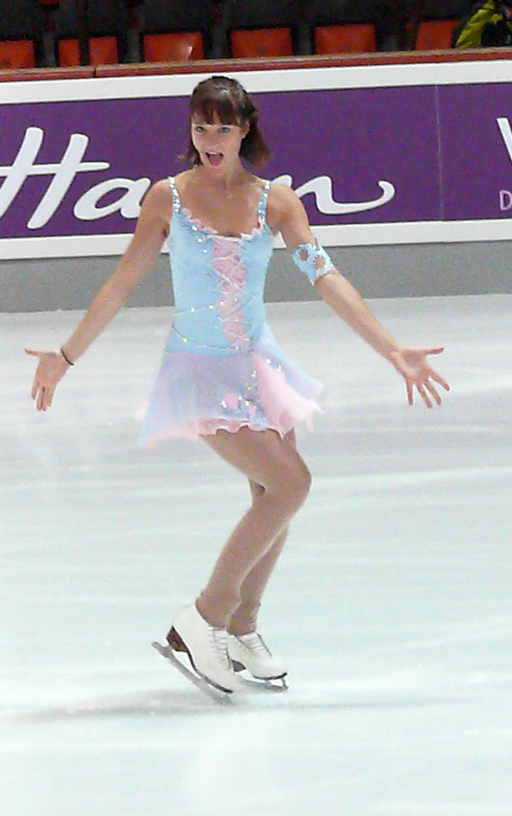 Kristin Wieczorek (GER) at the Nebelhorntrophy in Oberstdorf/Germany 2007